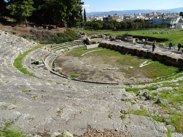 Archaeological sites in Argos - theatre